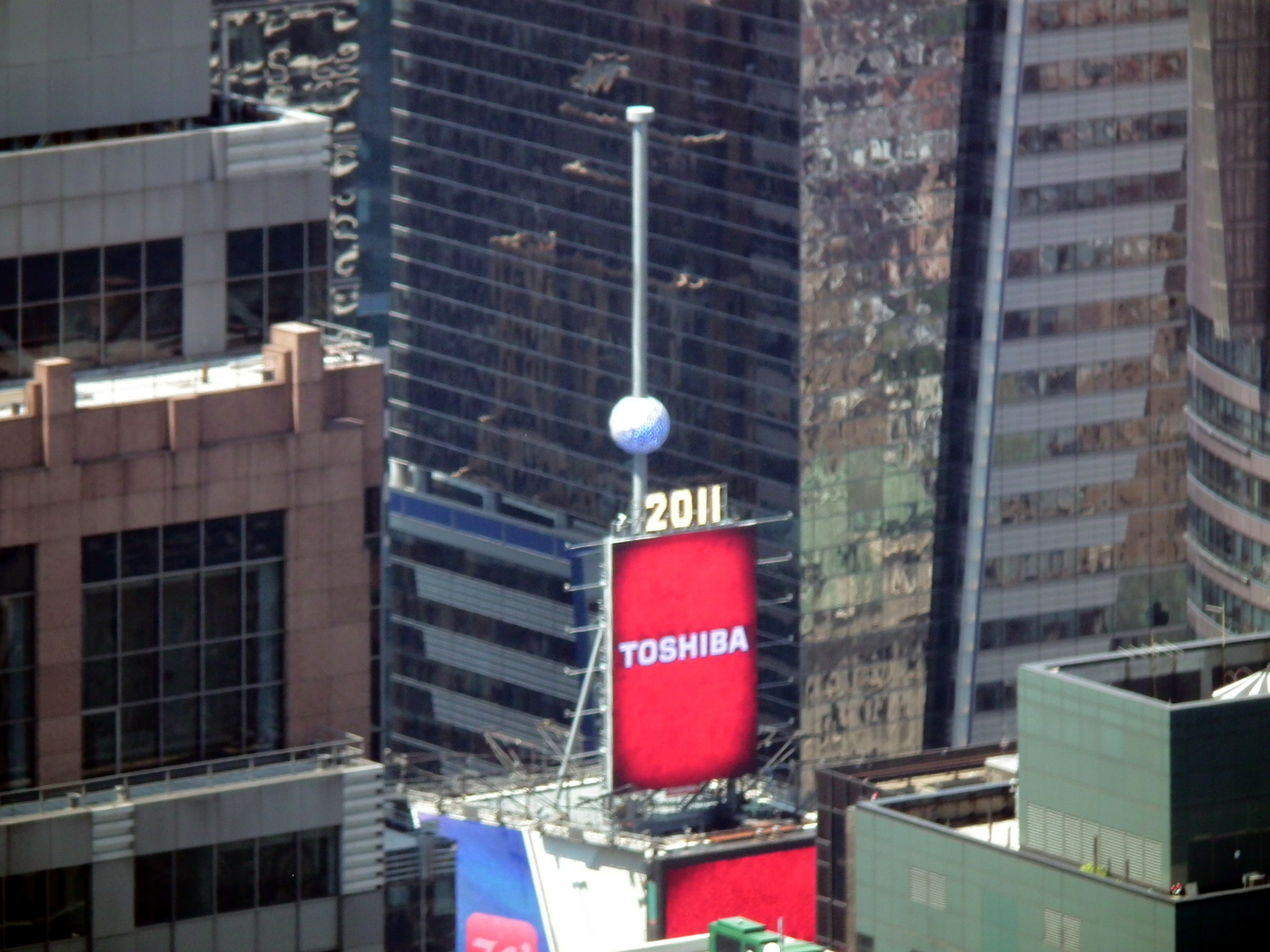 The view from the Rockefeller Center